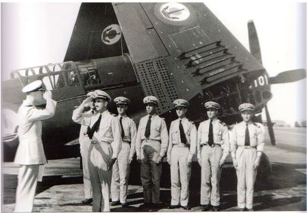 Delivery ceremony of the first two Curtiss SB2C-5 Helldiver with the provisional emblem of the Italian Navy.